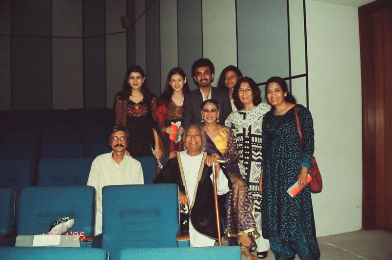 Nighat Chaodhry with Maharaj Ghulam Hussain